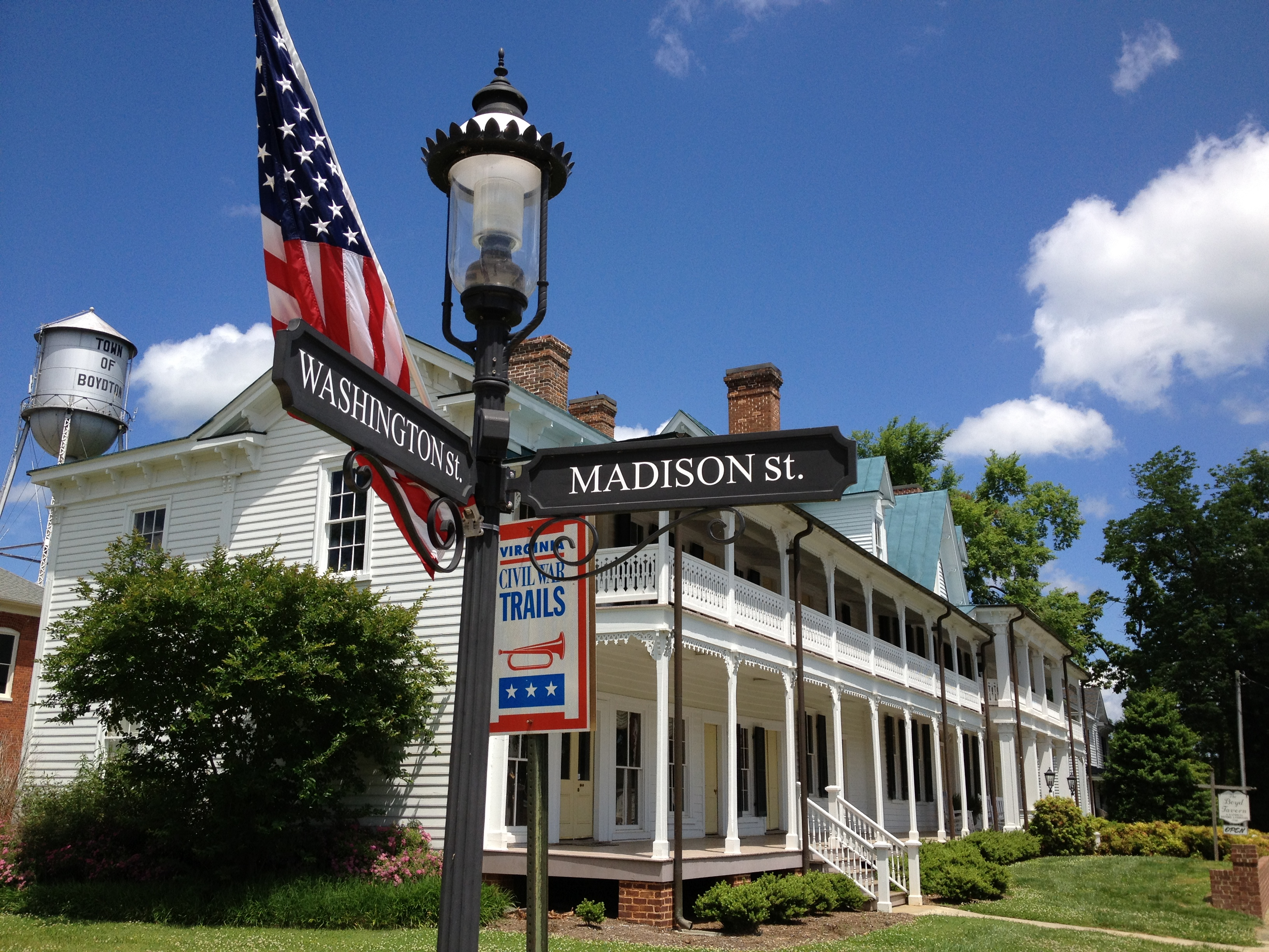 Boyd Tavern, c. 1790. Located in Boydton, Mecklenburg County, Virginia. Open to the public for tours.